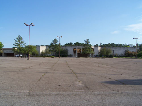 Regency Mall from gordon highway